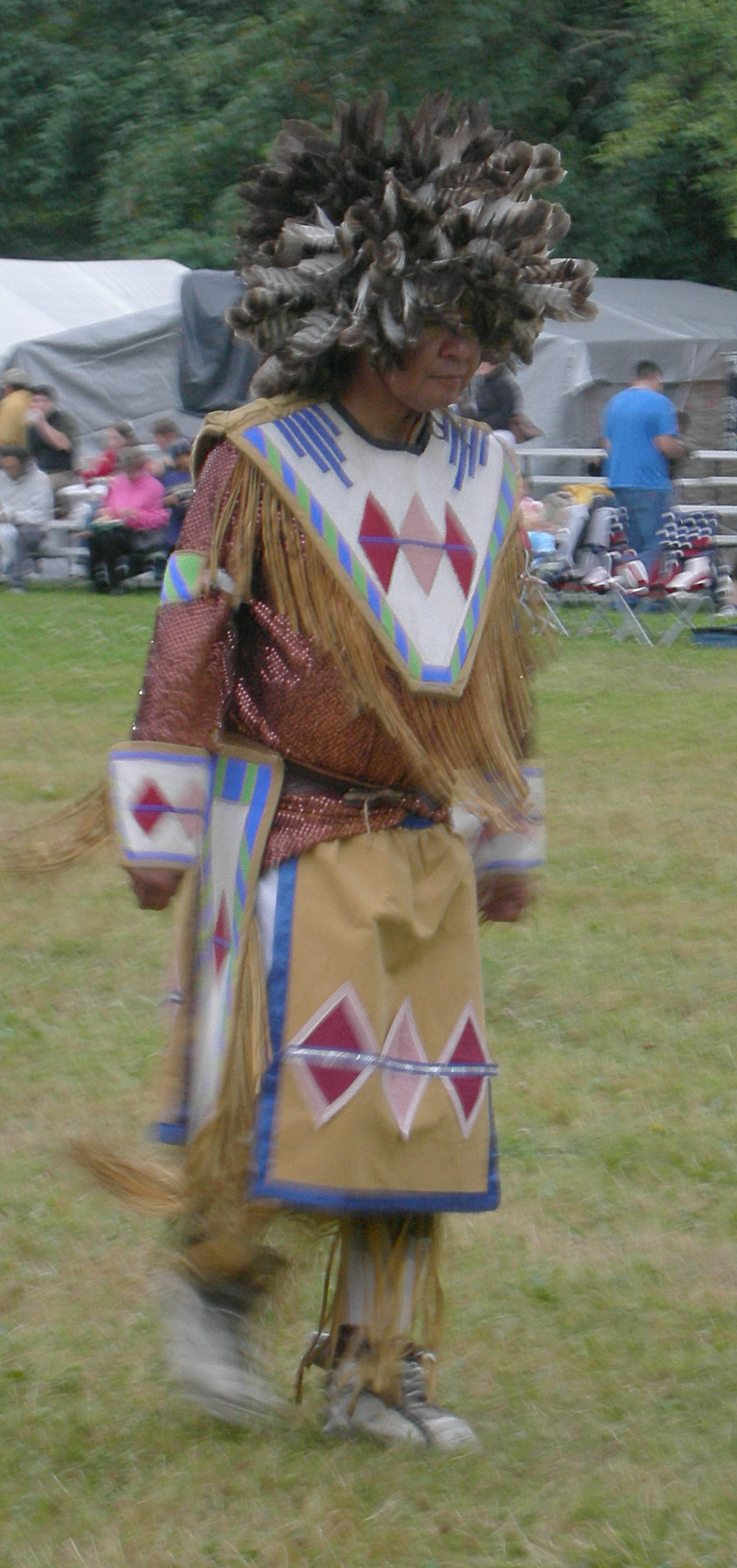 Dancer, Seafair Indian Days Pow Wow, Daybreak Star Cultural Center, Seattle, Washington. The event is part of Seafair (a series of annual summer events in Seattle) and under the aegis of the United Indians of All Tribes Foundation.